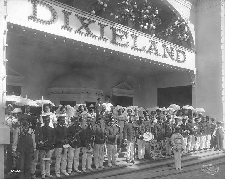 Dixieland, Pay Streak, Alaska Yukon Pacific Exposition, Seattle, 1909. Photographer: Nowell, Frank H., 1864-1950 Subjects (LCSH): Dixieland (Seattle, Wash.) Theatrical productions--Washington (State)--Seattle Bands--Washington (State)--Seattle Portraits, Group--Washington (State)--Seattle Pay Streak (Seattle, Wash.) Alaska-Yukon-Pacific Exposition (1909 : Seattle, Wash.) Exhibitions--Washington (State)--Seattle Digital Collection: Alaska-Yukon-Pacific Exposition Collection Item Number: AYP578 Persistent URL: University of Washington Libraries. Digital Collections [#//content.lib.washington.edu%20